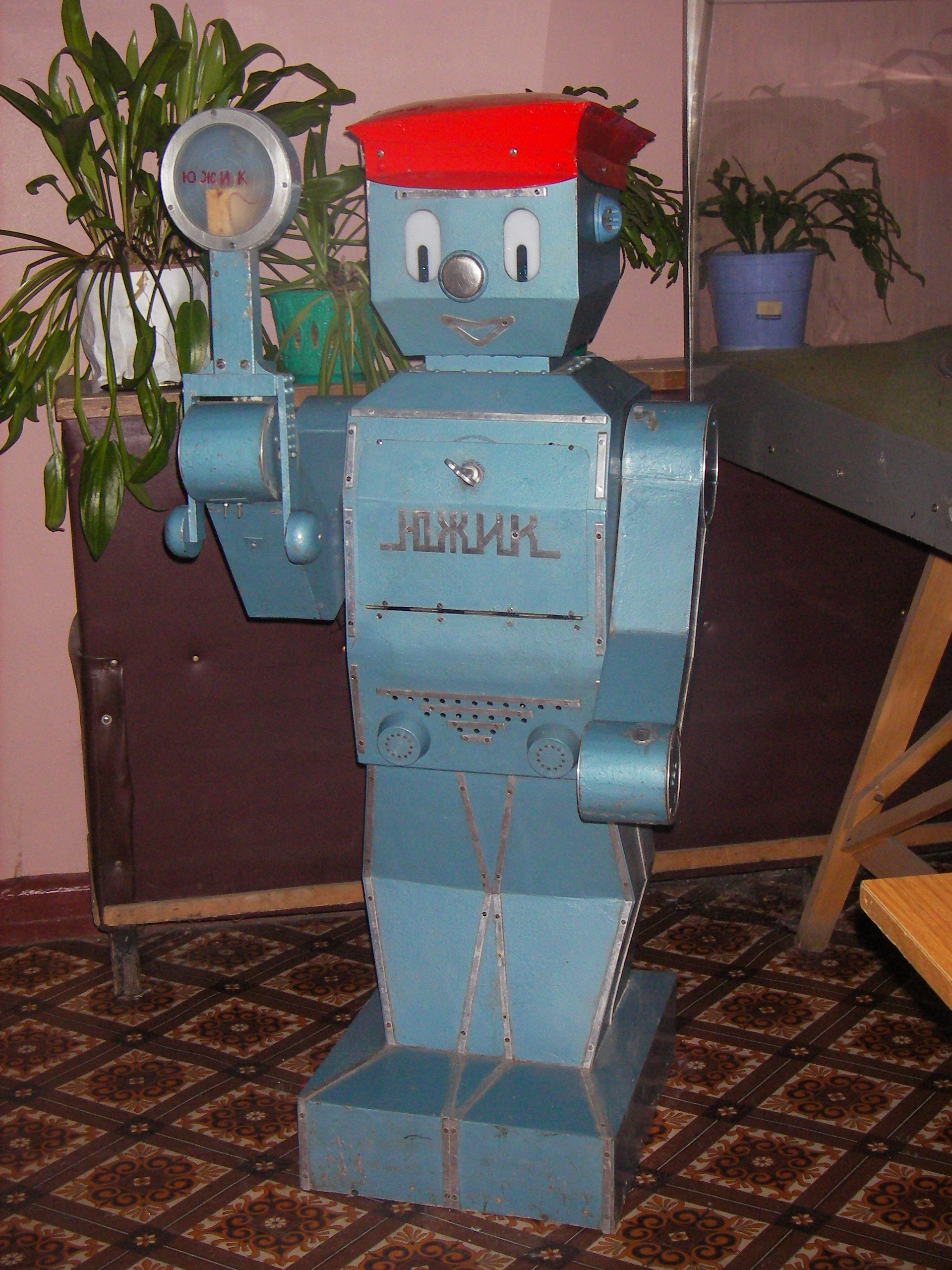 Robot named Yuzhik at Children's railroad in Yekaterinburg, Russia